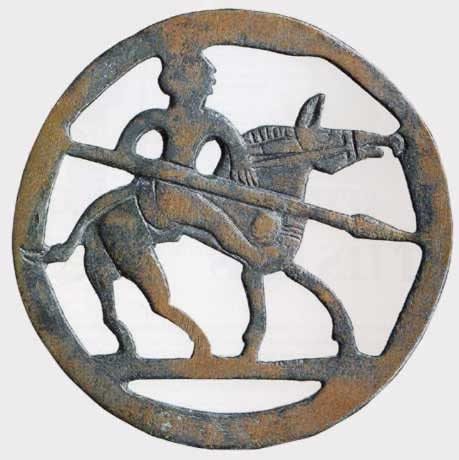 Decorative brass disk showing a rider with horse found at the alamannic graveyard of Bräunlingen. Merowingian Period, 6th century A.D., Badisches Landesmuseum Karlsruhe, Germany. Inventory no. C 4957.